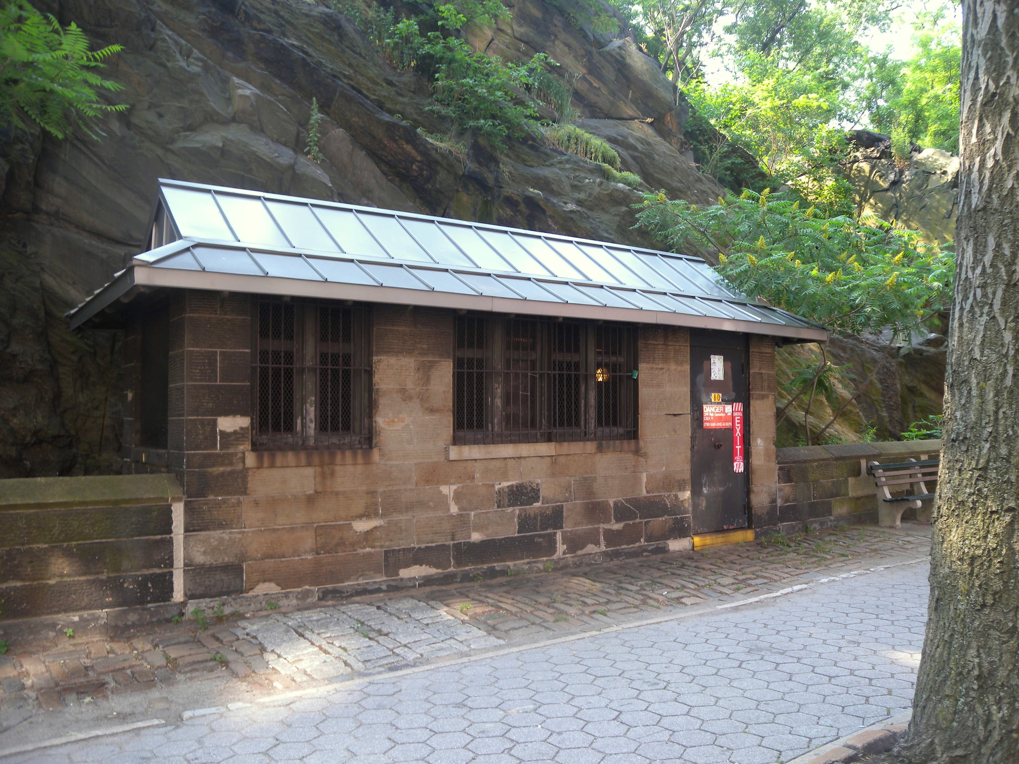 Looking south from Central Park West at a small powerhouse on a mostly sunny morning.